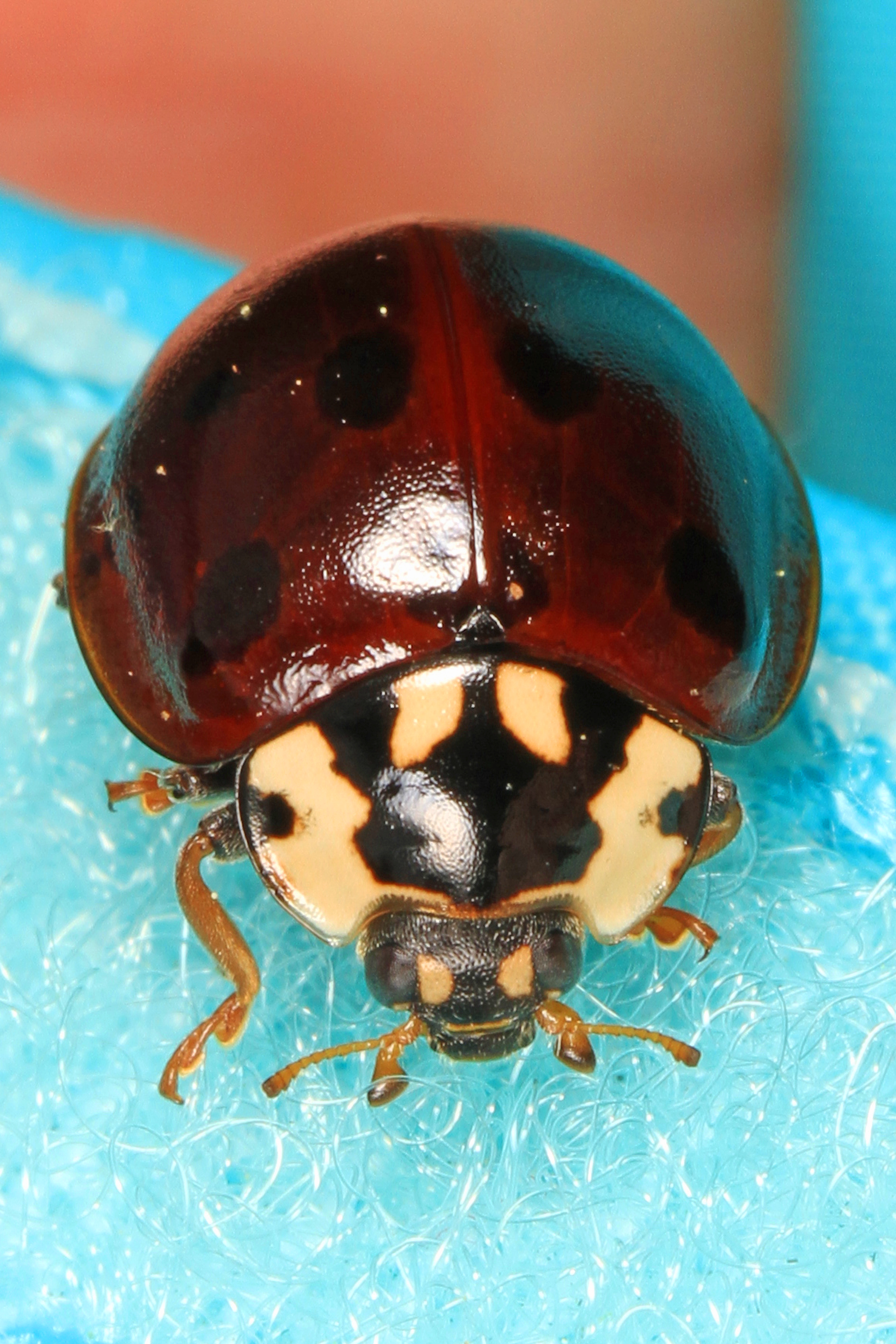 Fifteen-spotted Lady Beetle - Anatis labiculata, Green Ridge State Forest, Flintstone, Maryland.